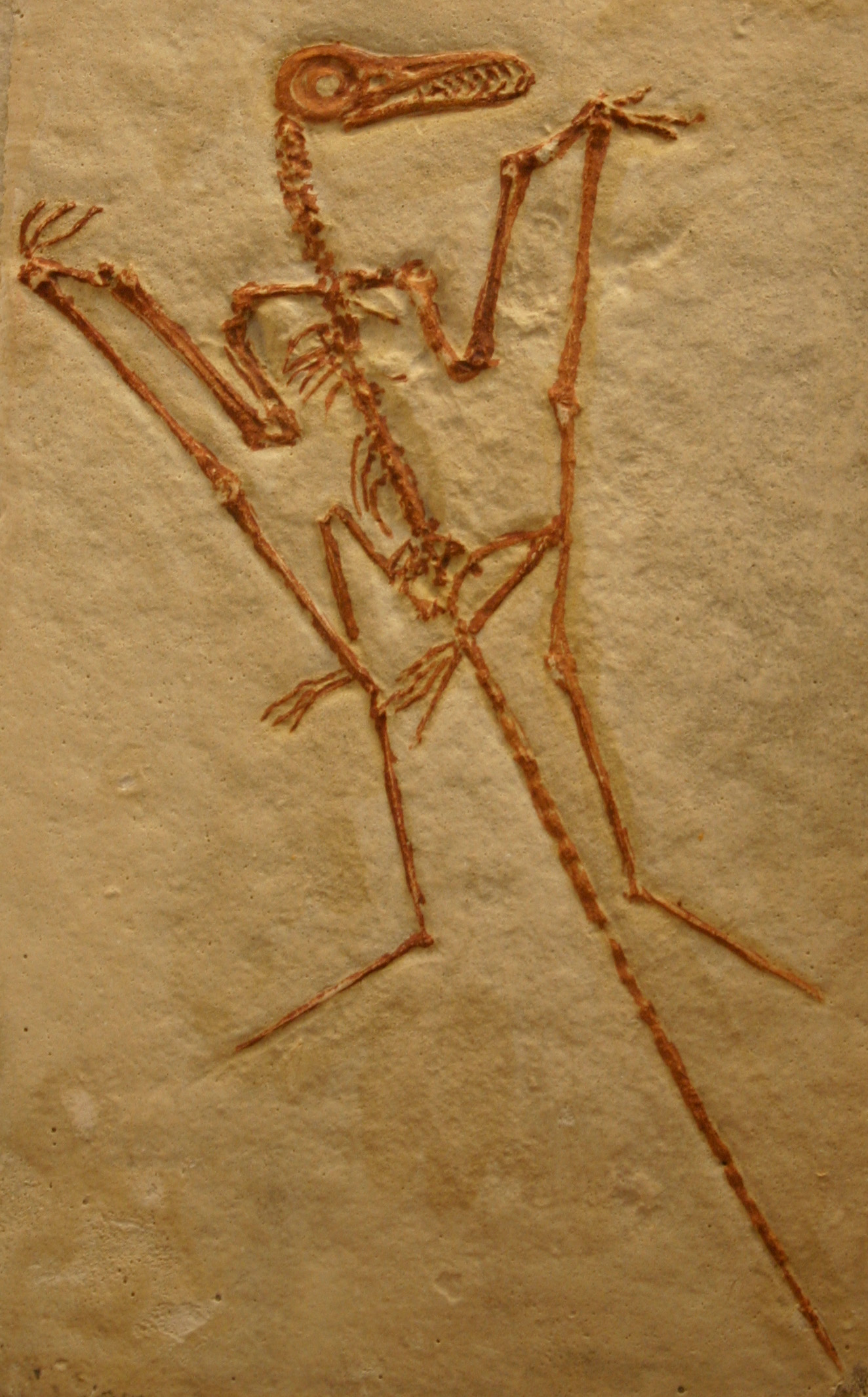 Cast of a fossil Rhamphorhynchus longicaudus (now R. muensteri) from the Solnhofen limestones (example number 5 in Wellnhofer 1975). Image has been horizontally flipped.